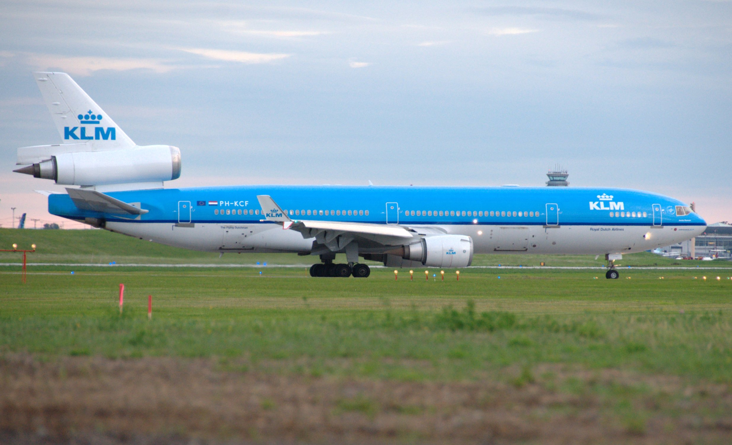 McDonnell Douglas MD-11 PH-KCF of KLM in Montréal-Pierre Elliott Trudeau International Airport, Canada (August 2011). KLM has phased out all of its MD-11s, with the last being retired in 2014. It will replace them with Boeing 787s and Airbus A350s, which will be quieter and more fuel efficient, however until these aircraft are delivered KLM's existing Boeing 777s and Airbus A330s are covering for the MD-11s on routes on which the MD-11 was previously used.